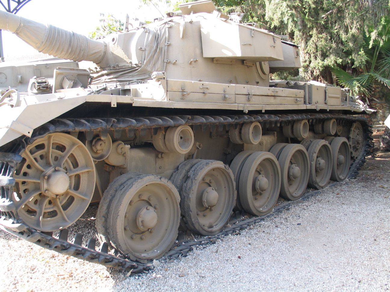 Description: Centurion (Shot Kal Alef) tank in Batey ha-Osef museum, Tel Aviv, Israel. 2005. Source: Photo by me, User:Bukvoed.